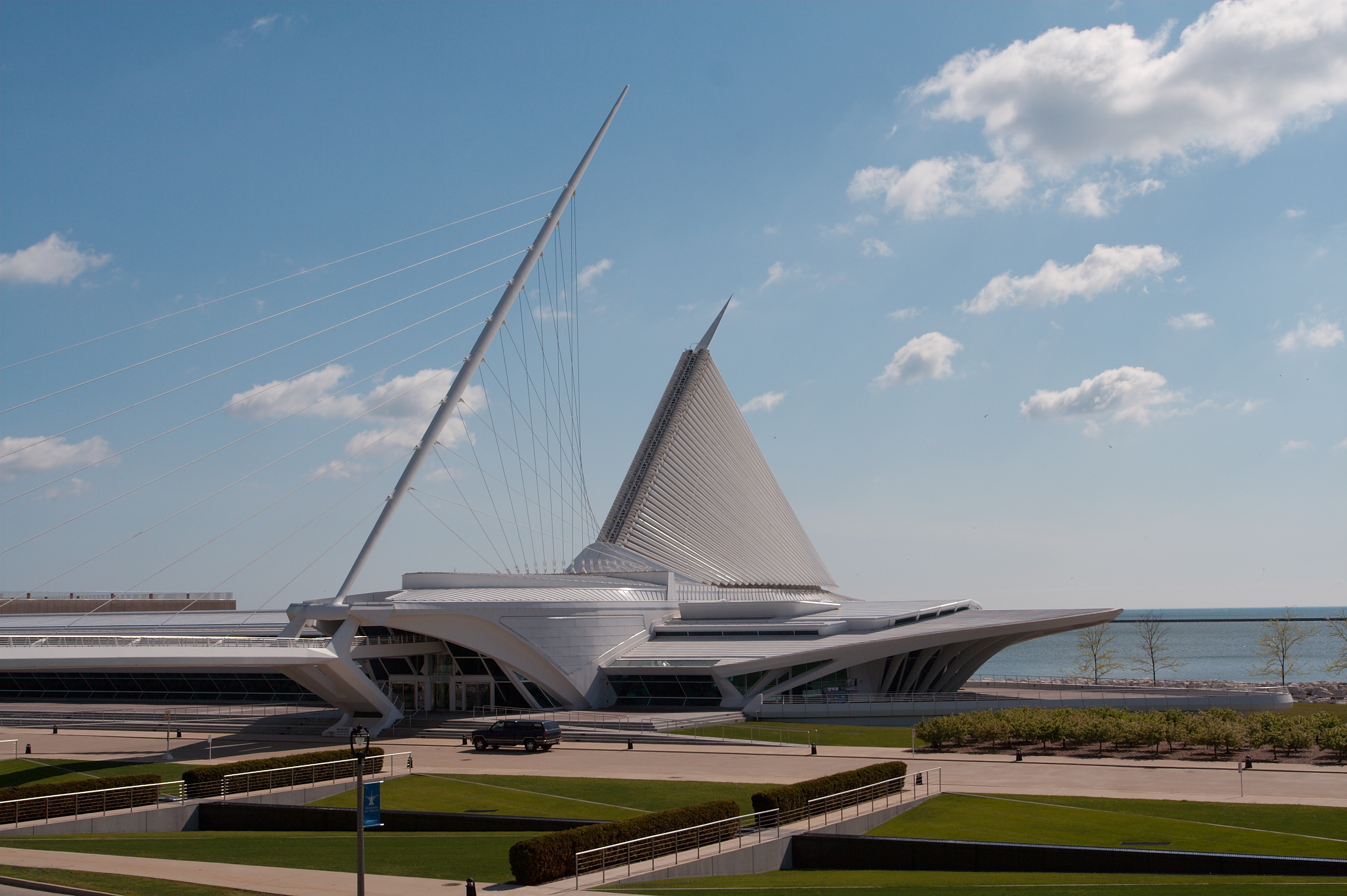 The Milwaukee Art Museum